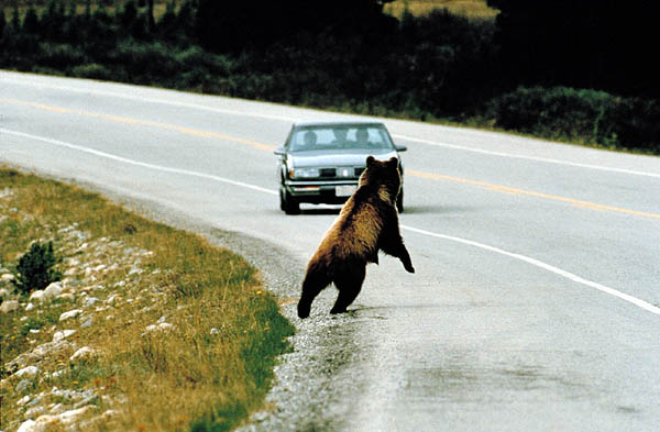 Wide-ranging large carnivores like wolves and grizzly bears and slow-moving animals such as turtles and salamanders are particularly vulnerable to roadkill.